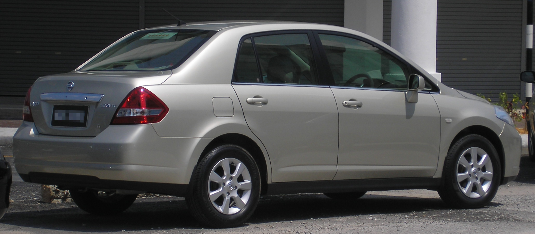 Rear quarter view of a first generation Nissan Latio sedan, in Serdang, Selangor, Malaysia.